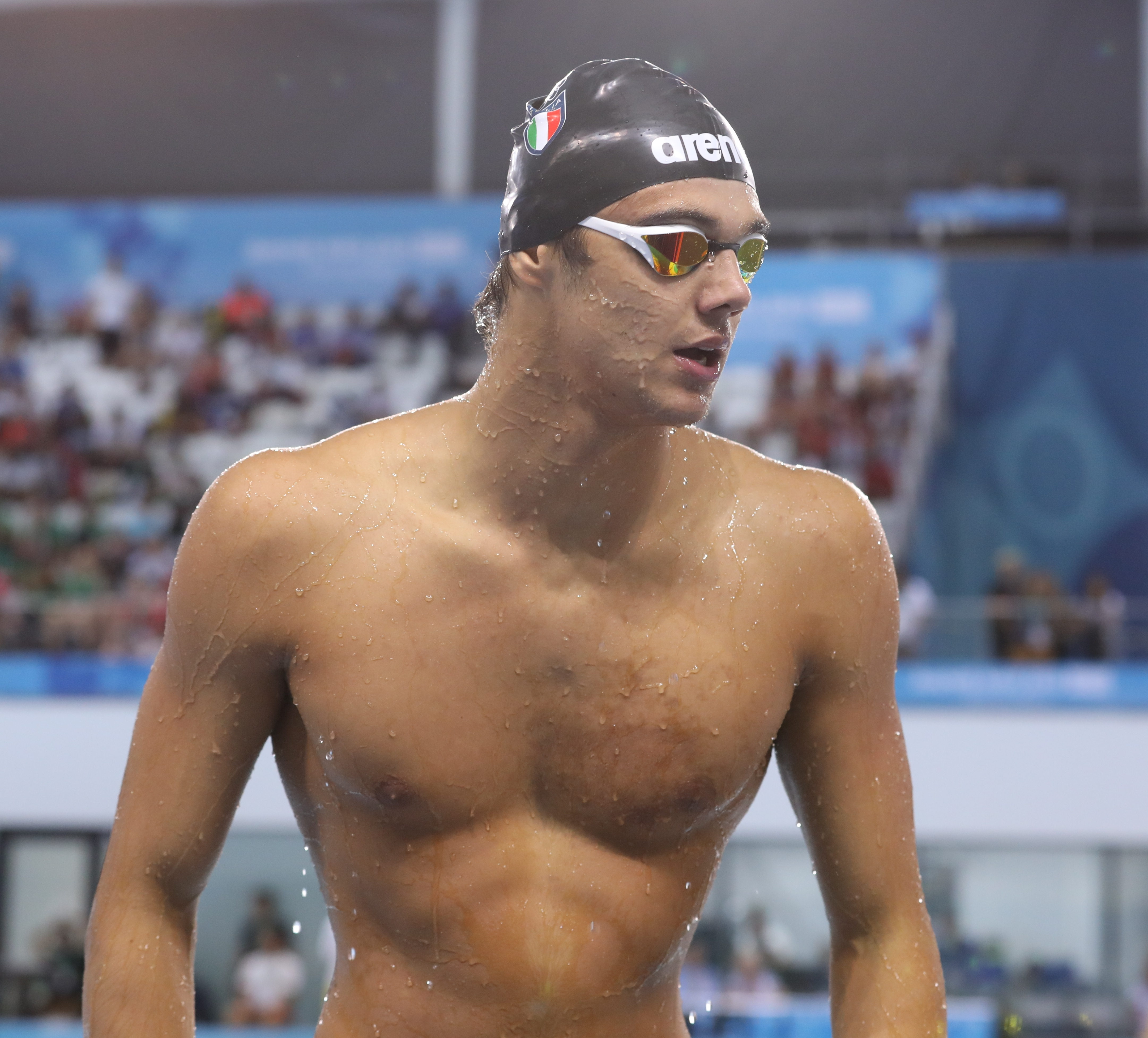 Boys' Swimming, Semifinal 2, 50 m Butterfly at the 2018 Summer Youth Olympics in Buenos Aires at the 10th October 2018